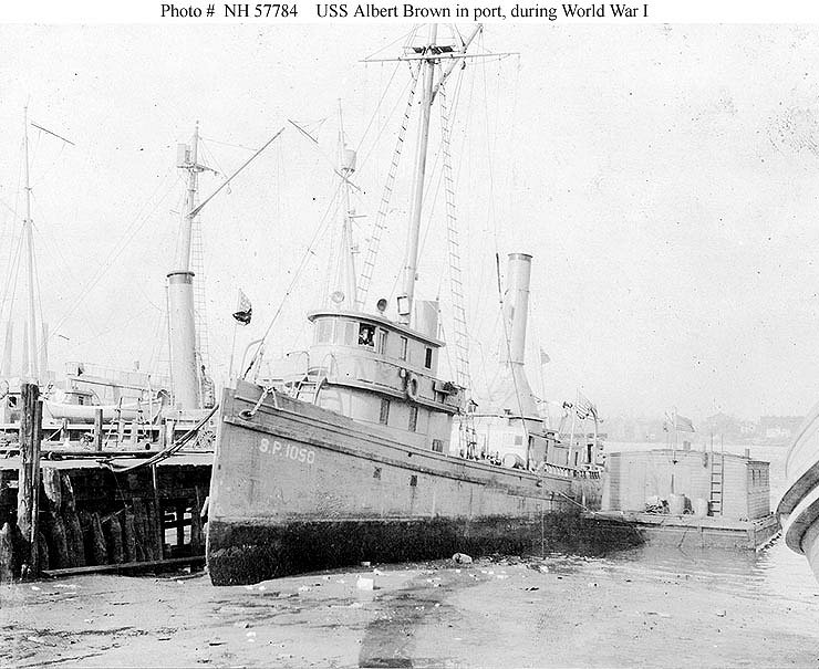 Tied up to a pier during World War I. USN Photograph NH 57784